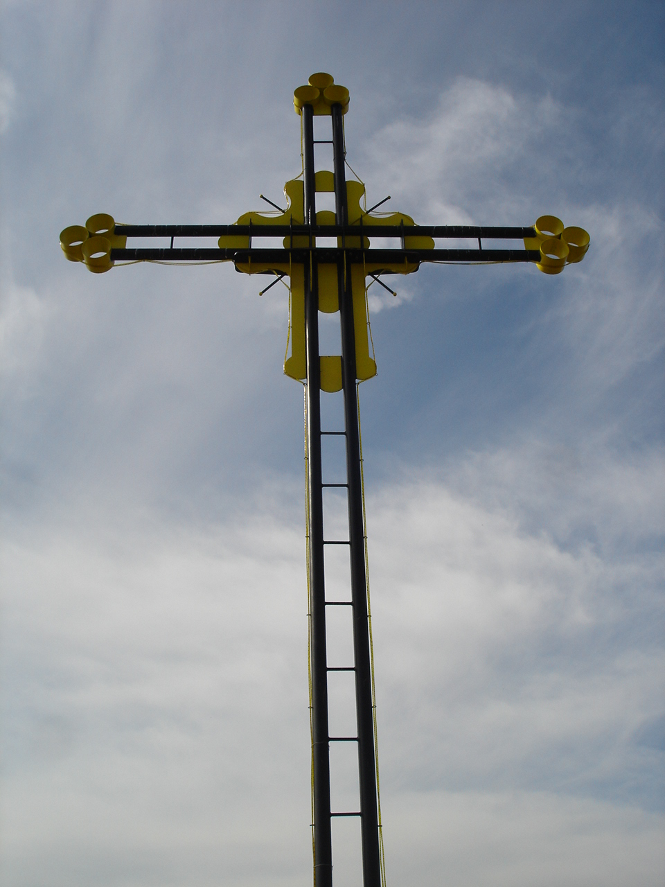 Christian cross in Vasharejca village, Macedonia